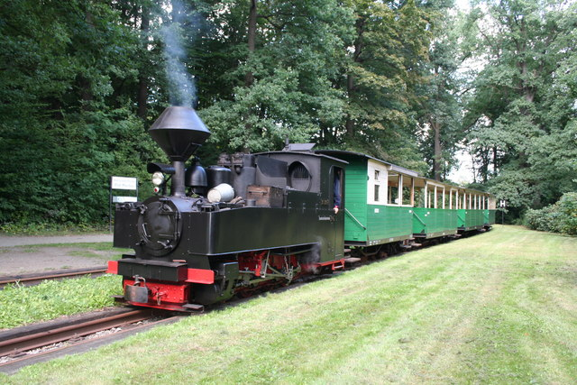 Narrow gauge train at Bad Muscau